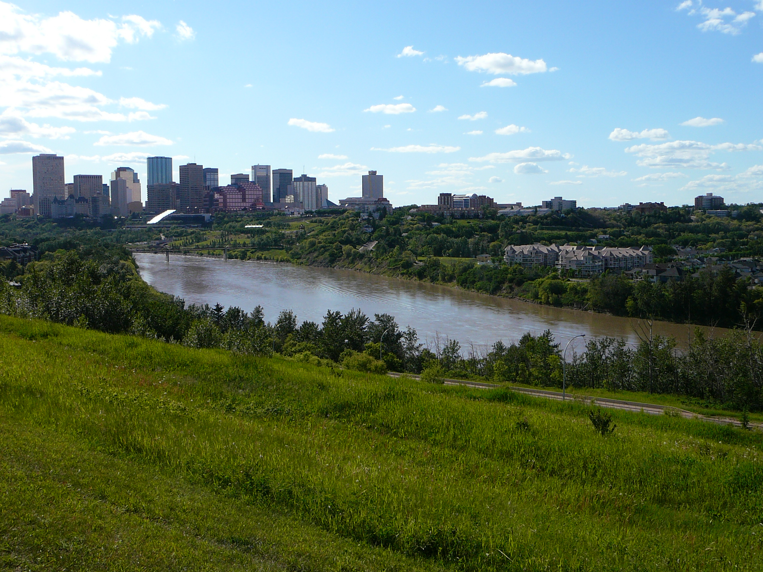 View of downtown Edmonton from the neighbourhood of Strathearn